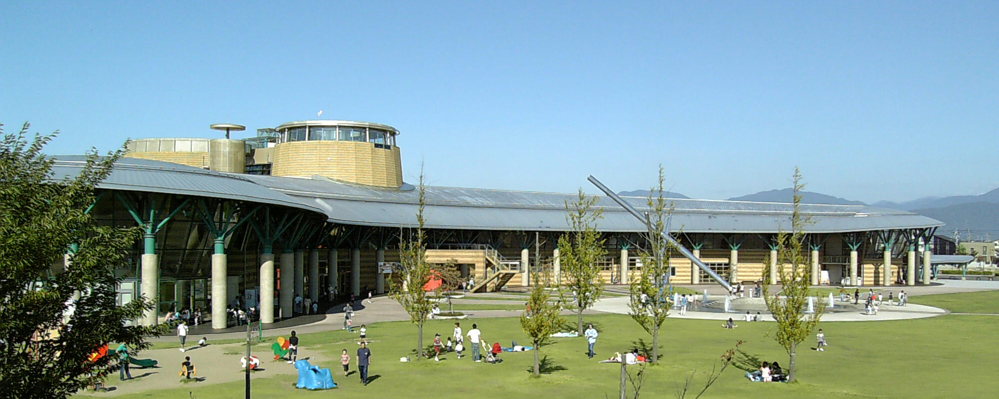 福井県立児童科学館〈エンゼルランドふくい〉全景 The whole view of Fukui prefectural science museum for children, Angelland Fukui